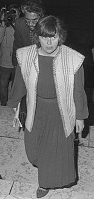 Cropped version of Proces over uitlevering IRA-leden in Den Haag getuige Bernadette (Devlin) McAl, Bestanddeelnr 933-7564.jpg